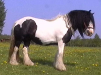 irish cob